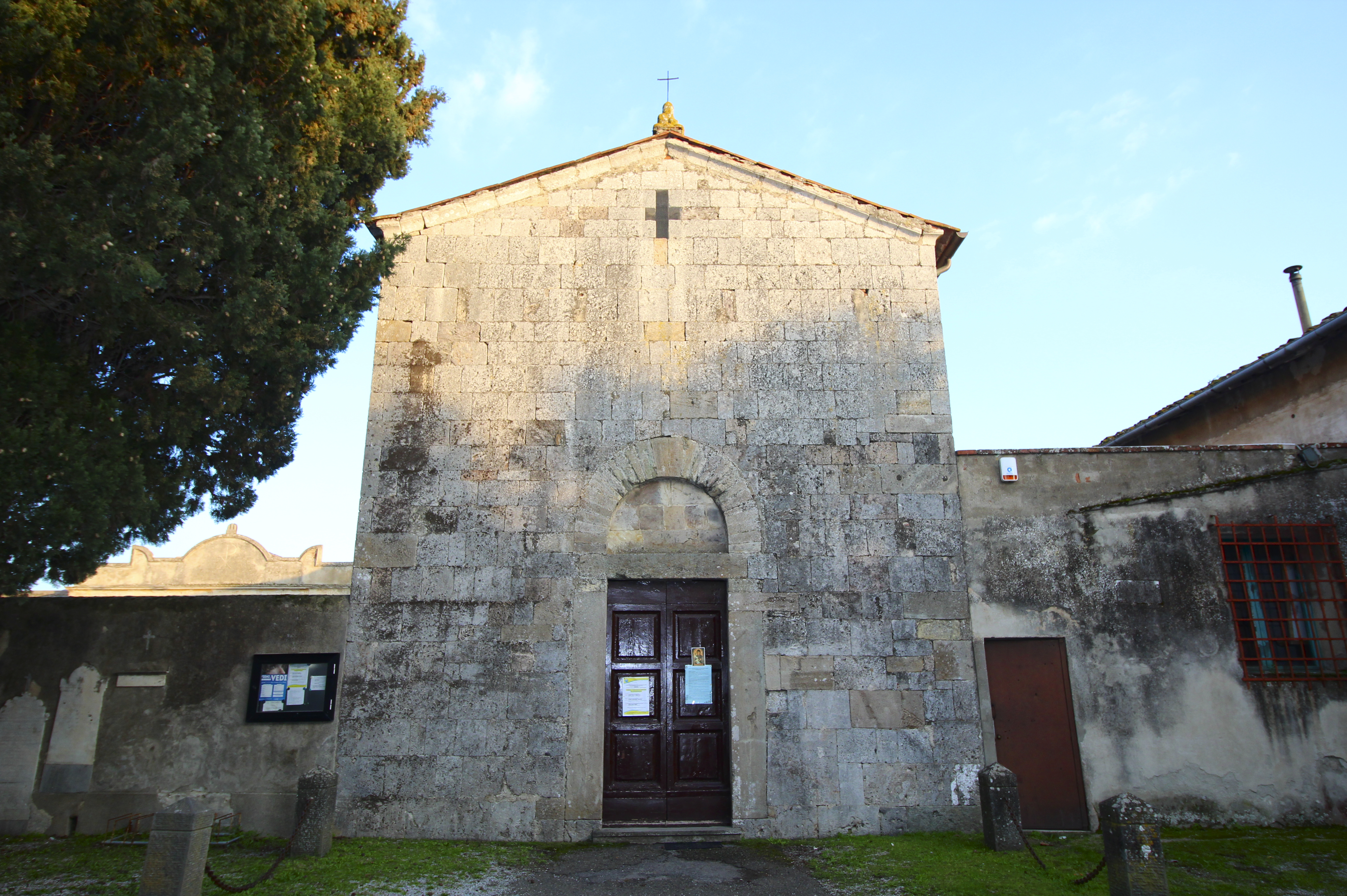 Church Santo Stefano, Pettori, hamlet of Cascina, Province of Pisa, Tuscany, Italy